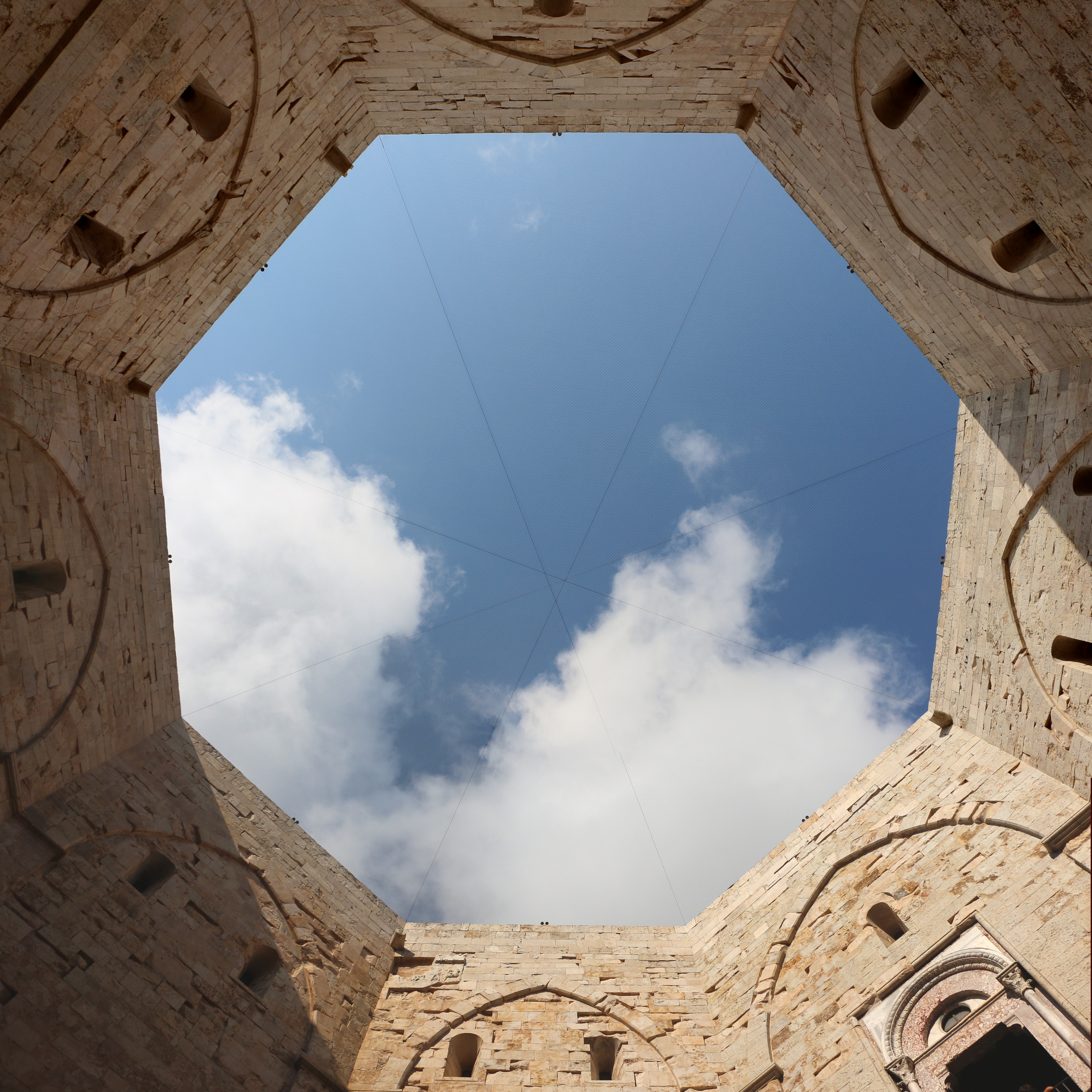 Courtyard of the Castel del Monte